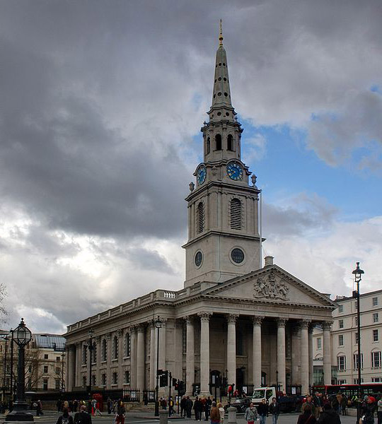 Flipped horizontal